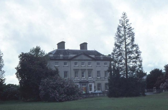 Abbey Leix. The demesne was renowned for its tree collection.